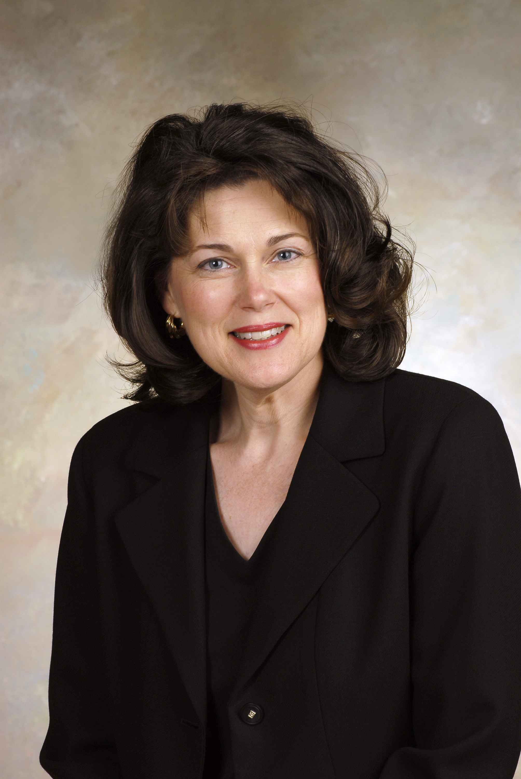 Robin Henderson, associate director, management, of NASA's Marshall Space Flight Center in Huntsville, Ala., manages and leads development of the center's business operations, guides daily business decisions, and oversees center operational policy and processes. In addition, she serves as a senior advisor in advancing the direction of the center's future. As of August 3, 2012, she will take over as acting director of the Marshall Space Flight Center.